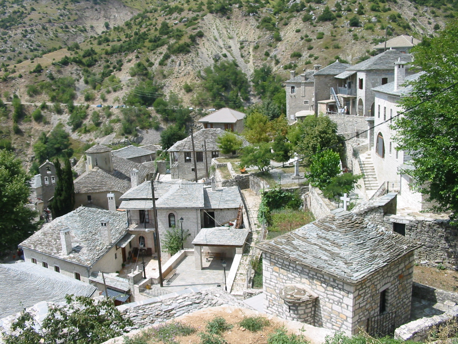 View of Syrrako - Epirus